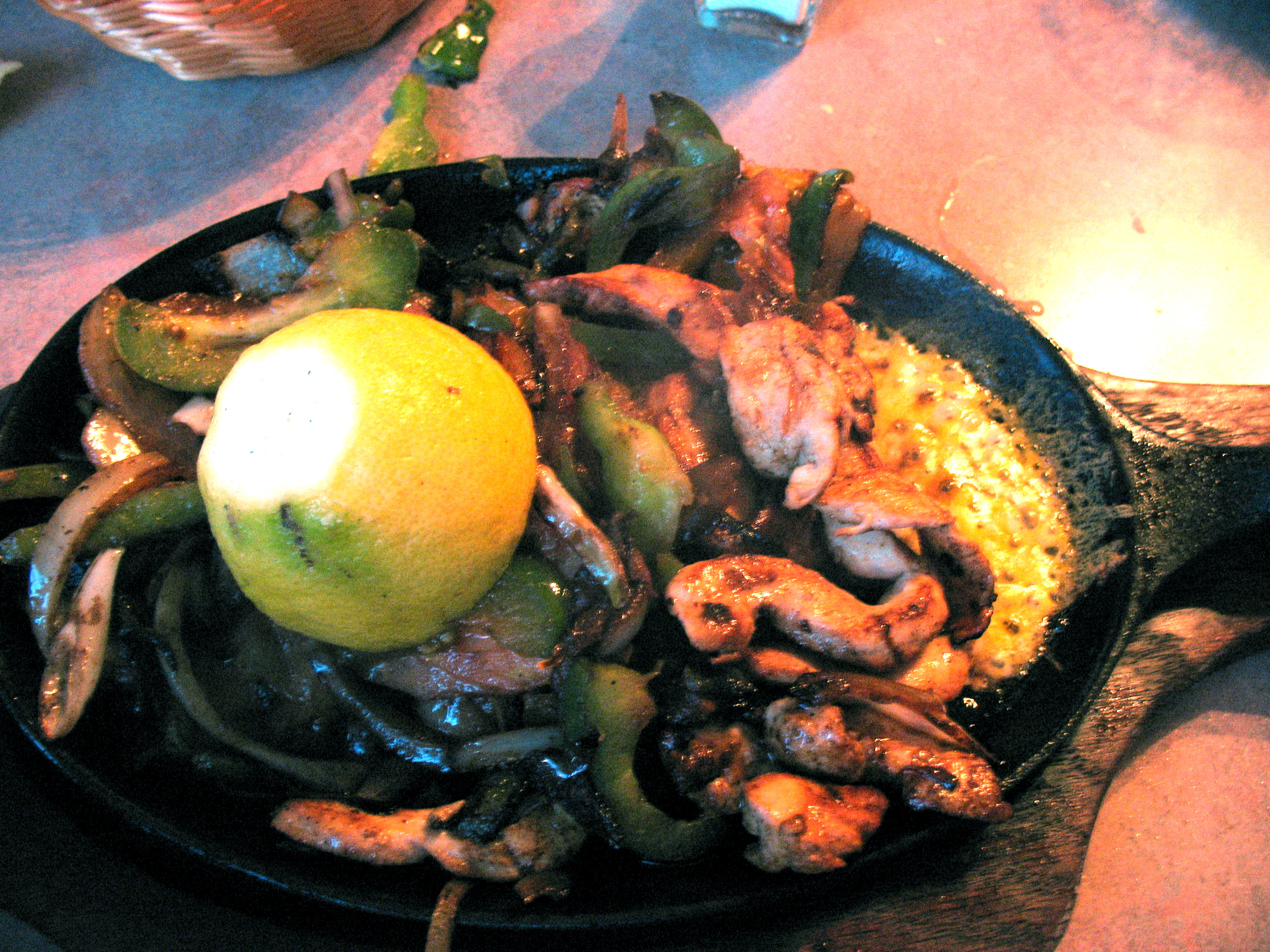 Chicken Fajitas at Ricardo's El Ranchito